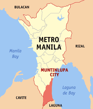 Locator map of Muntinlupa City in Metro Manila, Philippines.